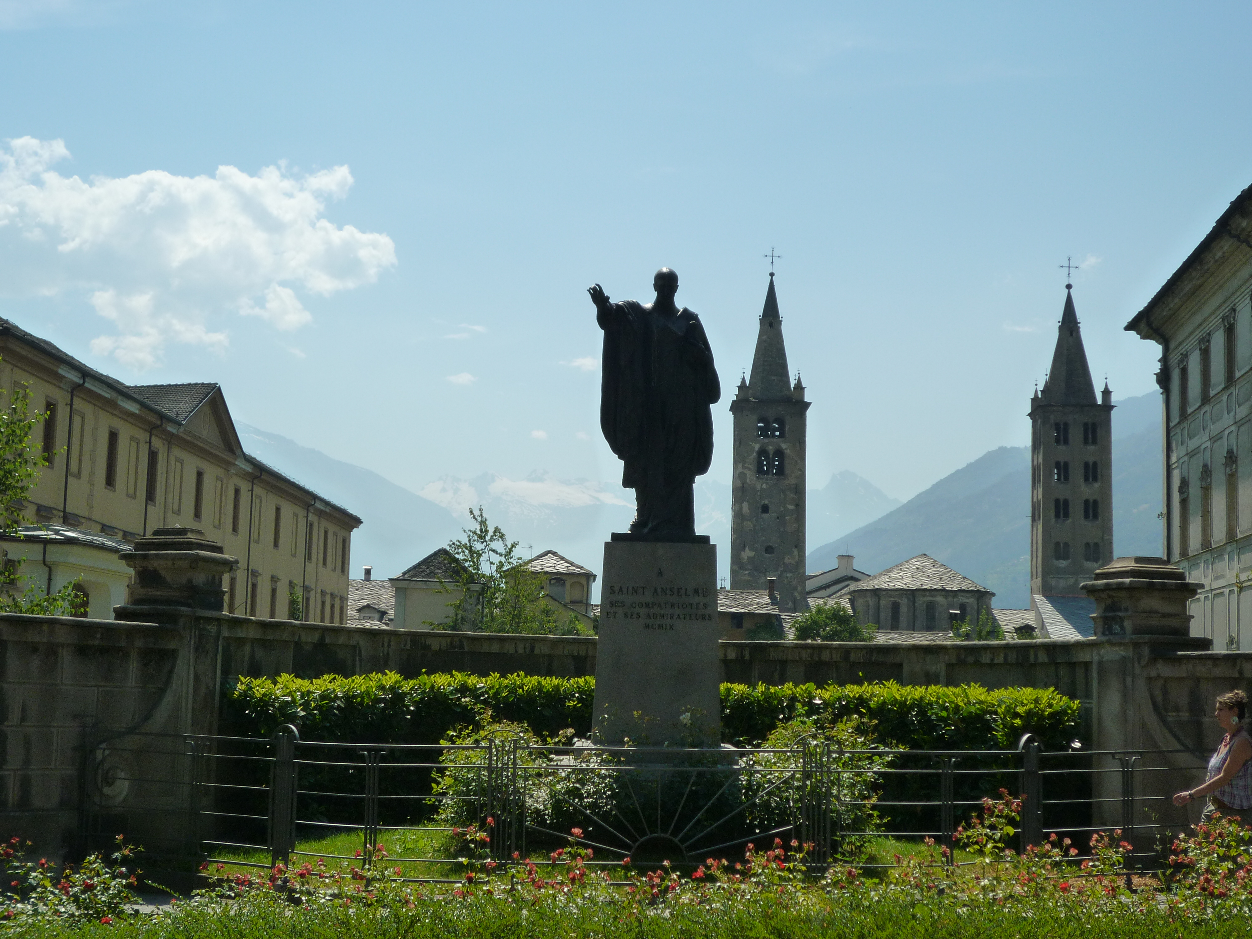 A badly-taken photograph of the statue of St Anselm on Xavier de Maistre Street in Aosta, the site of his birth.